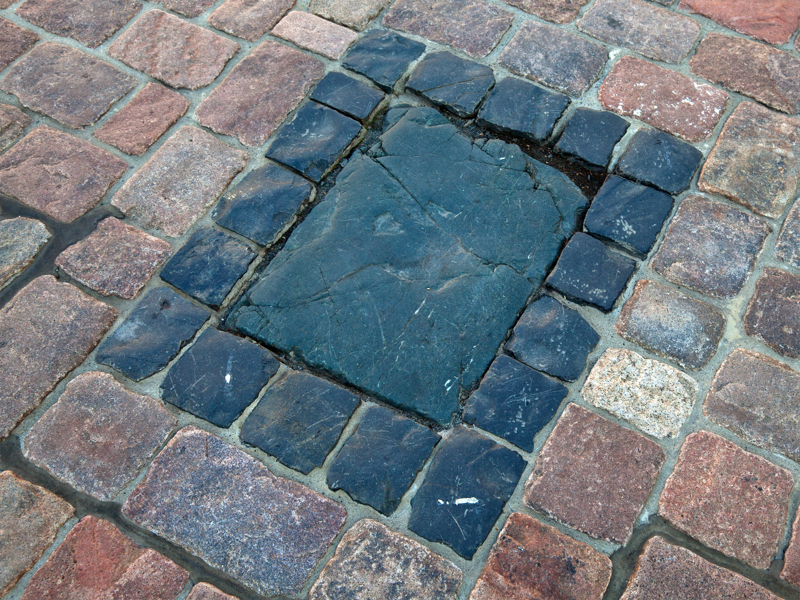 Freiberg, Saxony, stone memorial on the spot where Kunz von Kauffungen was beheaded in 1455 (people spat on this memorial as a sign of disgust)